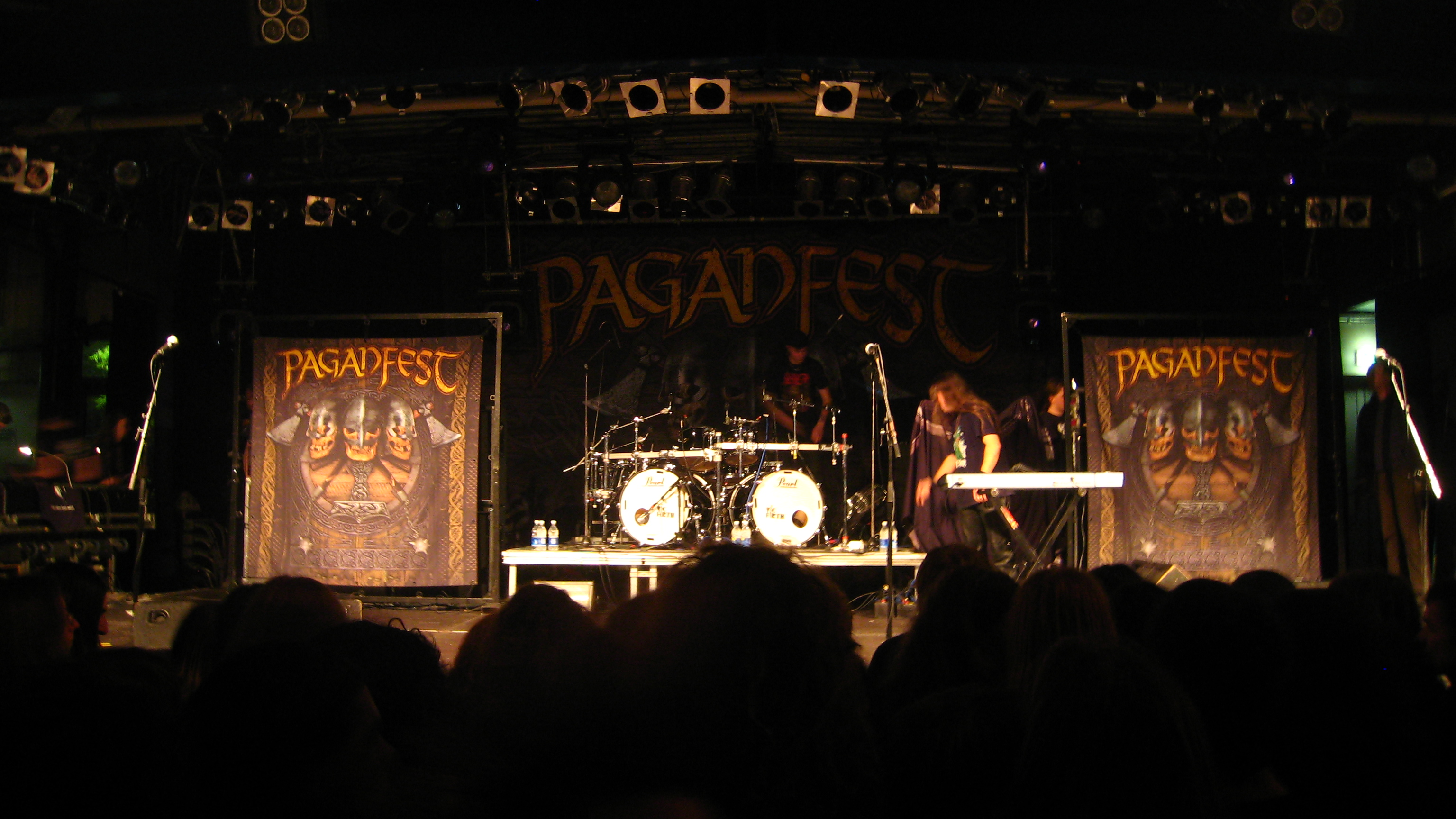 Stage of the Paganfest in Munich